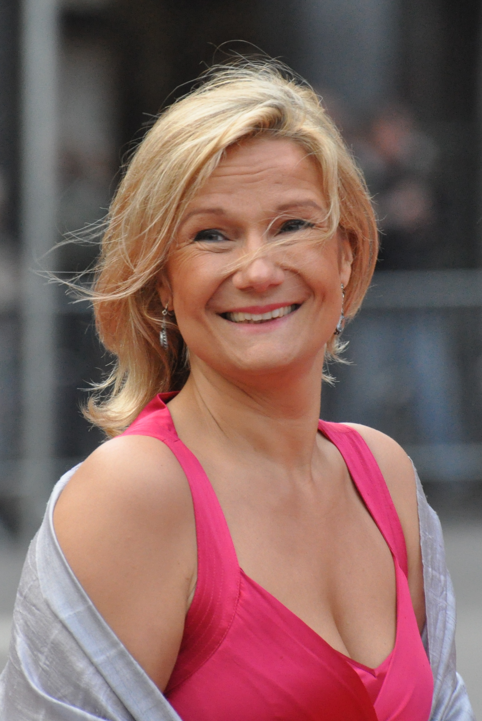 Wedding of Victoria, Crown Princess of Sweden, and Daniel Westling; Arrival of members for the Gouvernment and Swedish and foreign guests of hounour to the Riksdag's Gala Performance at Konserthuset